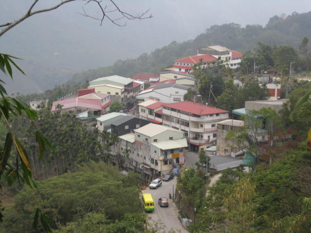 Looking down Caoling from County Highway No.149A. Caoling is a Village of Gukeng Township in Yunlin County,it is also scenic spots.